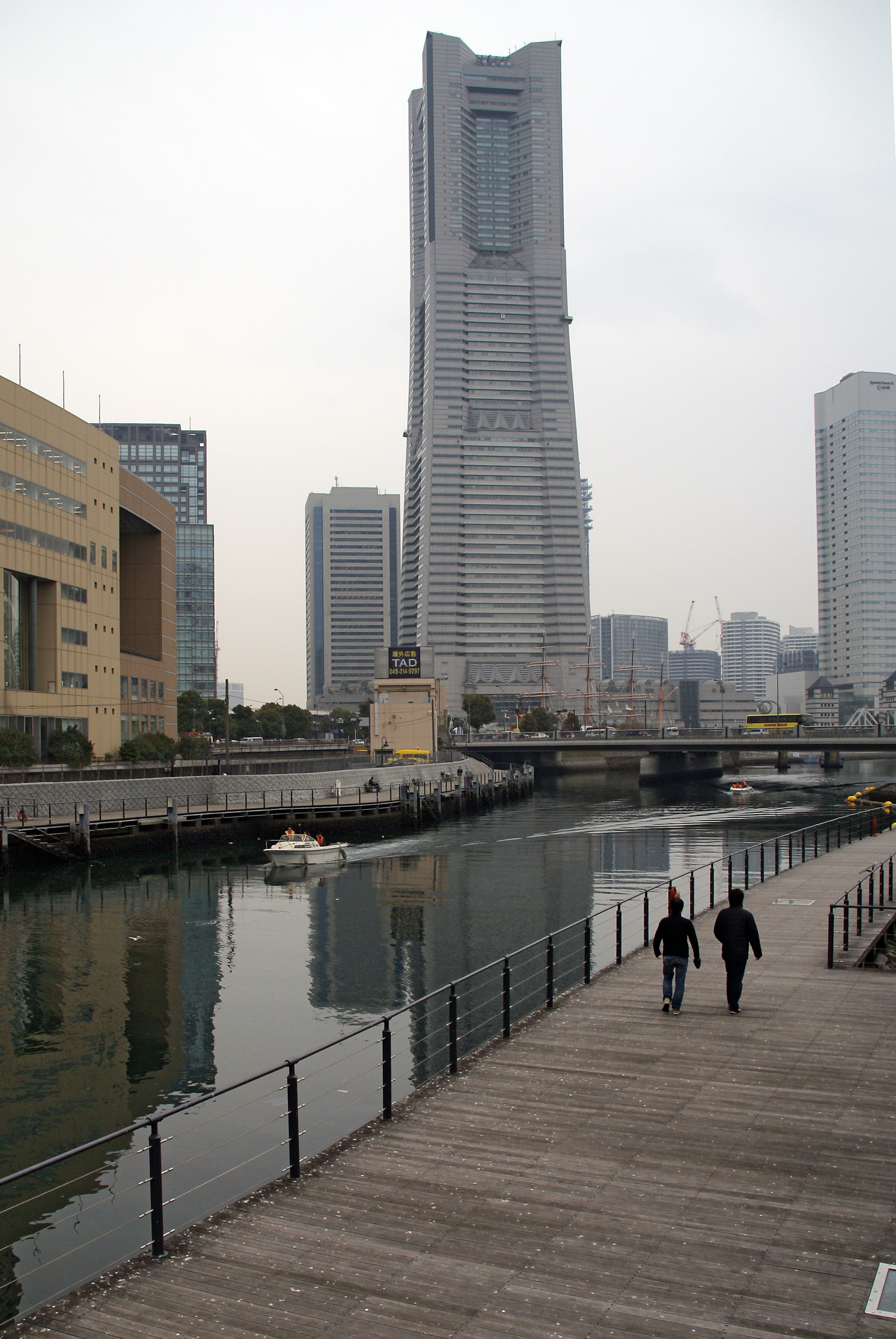 Yokohama Landmark Tower in Yokohama, Kanagawa, Japan